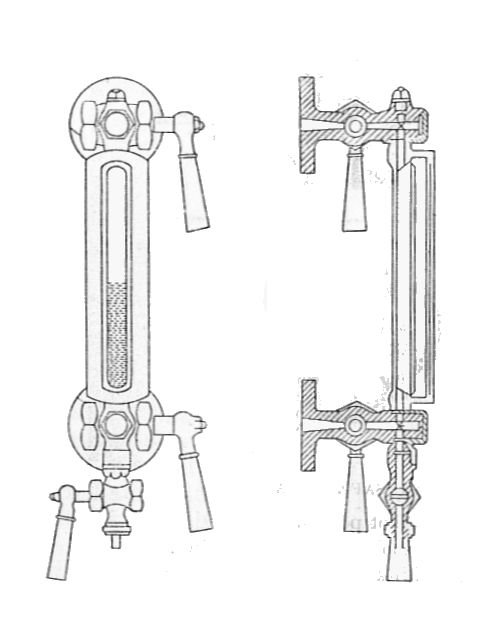 'Klinger' boiler water-level gauge (Army Service Corps Training, Mechanical Transport, 1911).jpg